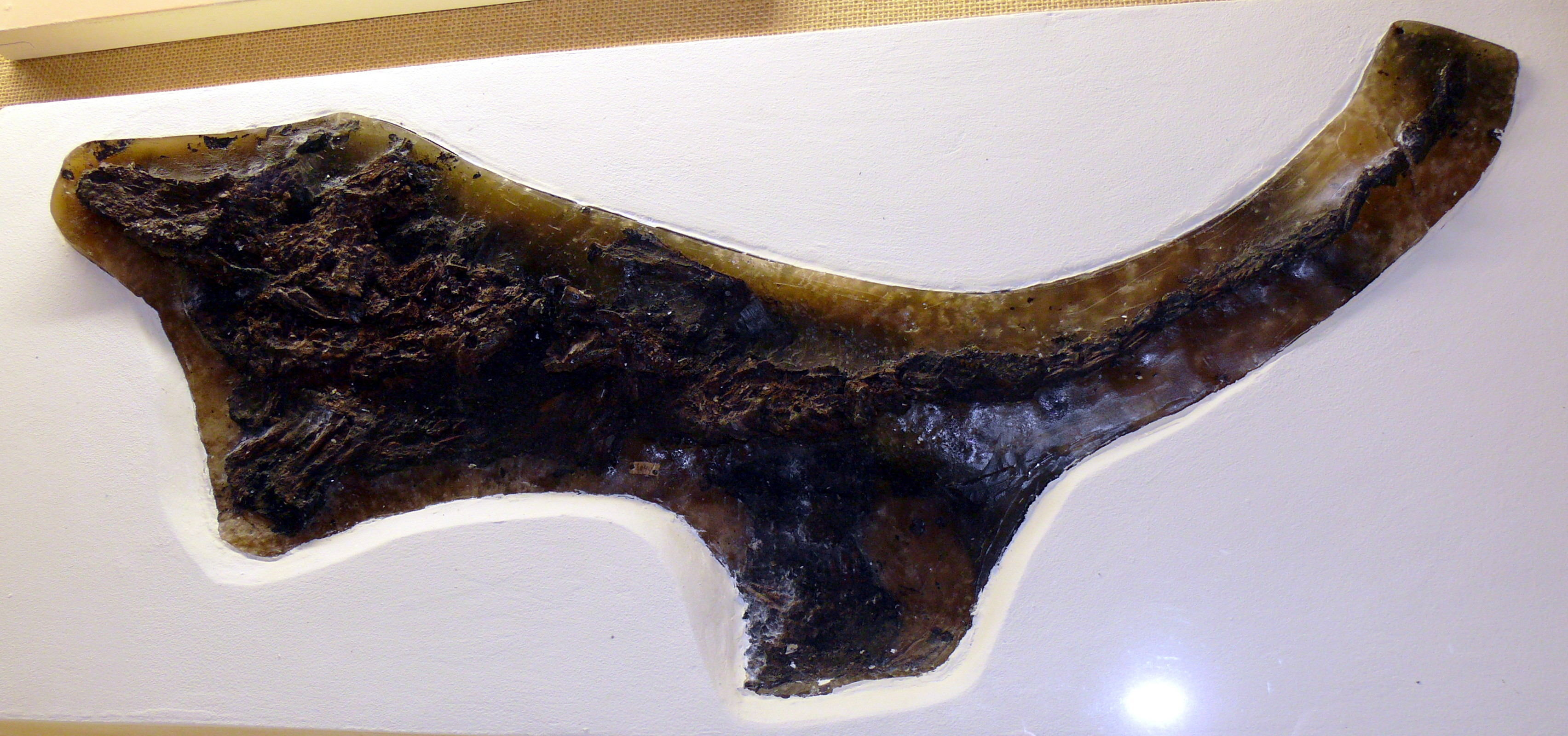 Complete but rather badly preserved specimen of the extinct crocodile Boverisuchus (= “Pristichampsus”) magnifrons KUHN 1938 from the Eocene deposits of the Geiseltal fossil site, Saxony Anhalt, Central Germany.